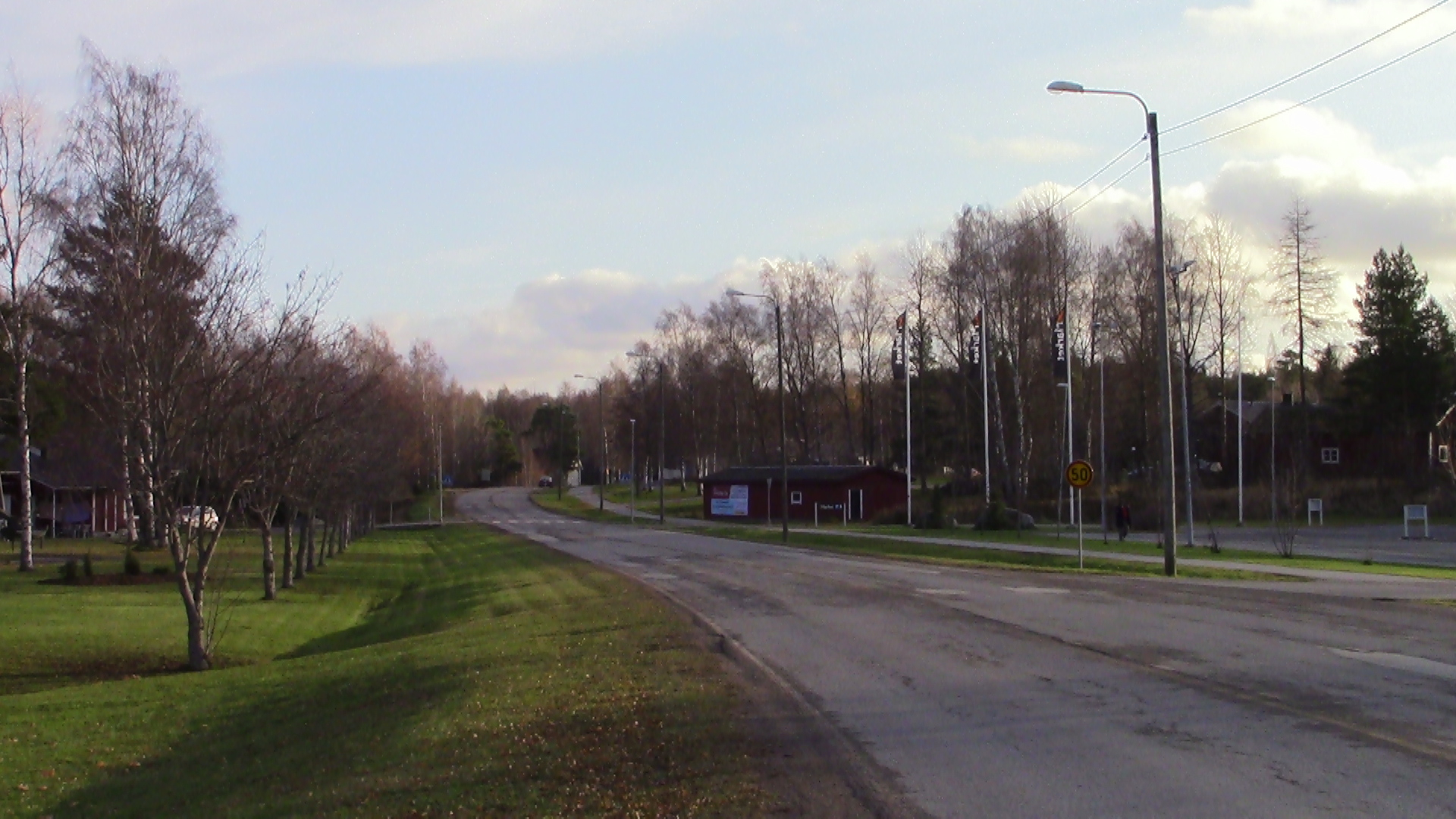 Finnish connecting road 2680 as seen from Kauppatie crossing in Merikarvia. The road runs from Merikarvia to Lamppi, Ahlainen.